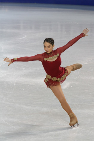 2010 European Figure Skating Championships - Elene Gedevanishvili